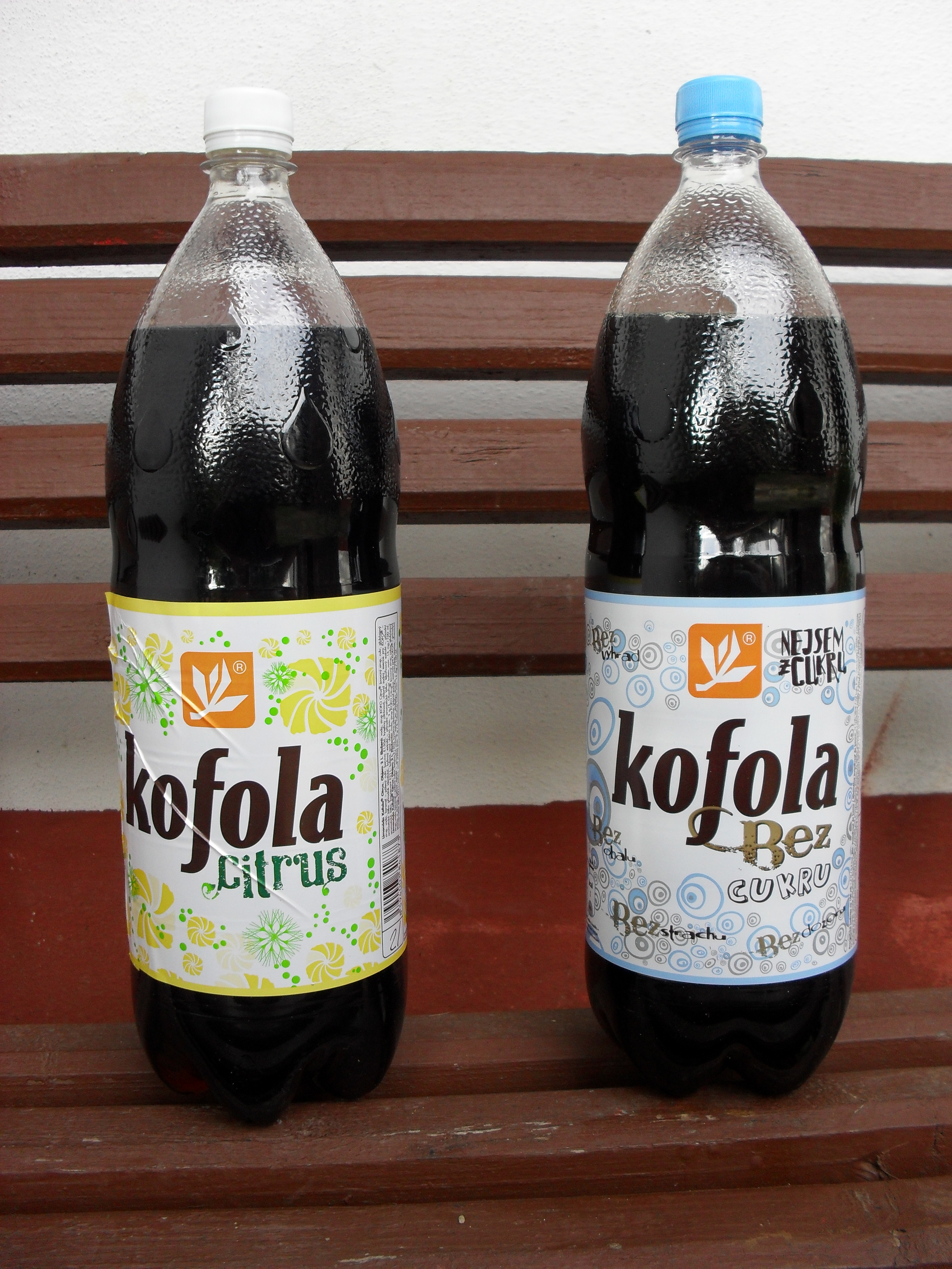 Kofola: with Lemon & Sugar Free